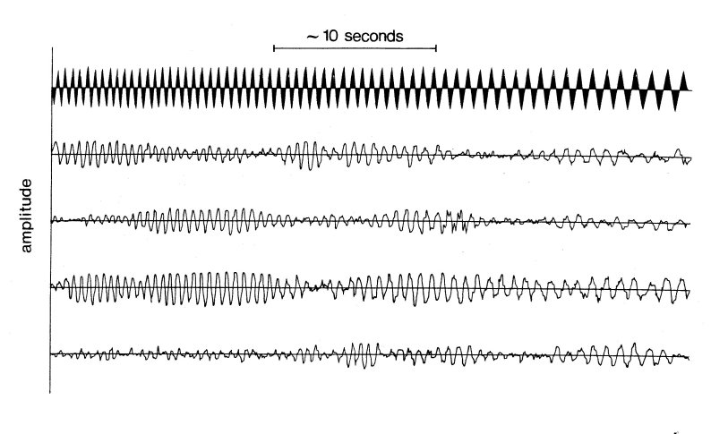 The ideal signal received from moored SOFAR emitters and several recorded signals from the float. The arrival time can be measured very accurately.